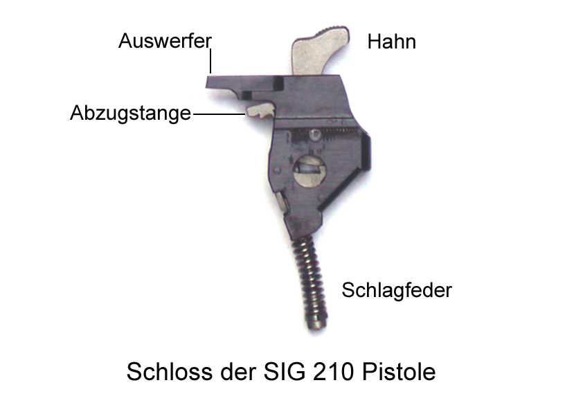 Lock of a SIG 210 Pistol